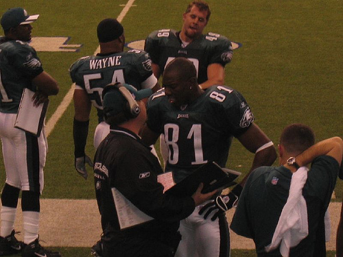 taken by Kenneth Centurion 2004